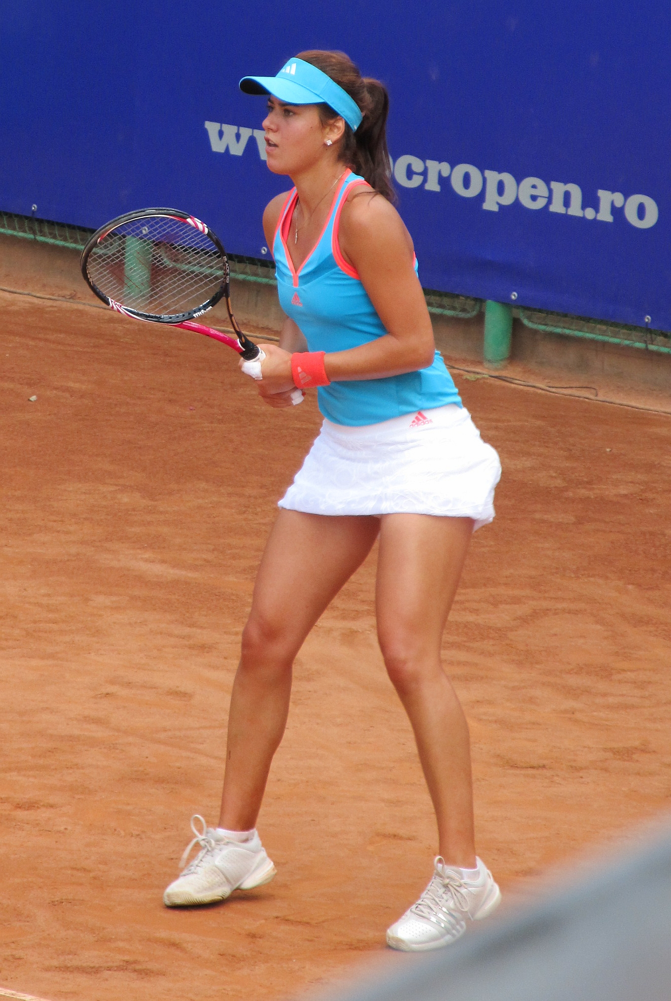 Sorana Cîrstea playing in the second round at the 2011 BCR Open Romania Ladies